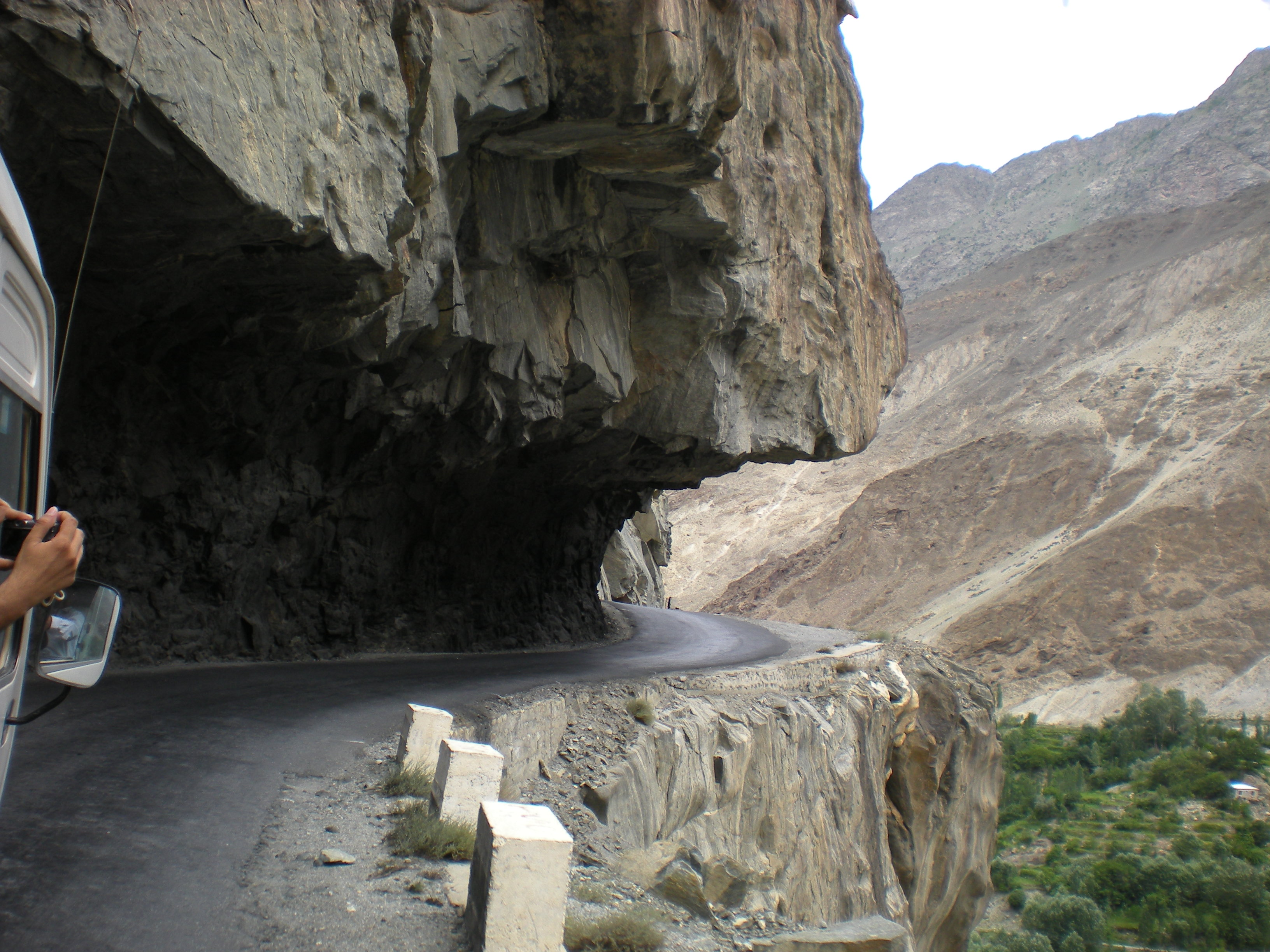 Amazing views along the Gilgit-Skardu Road, Pakistan